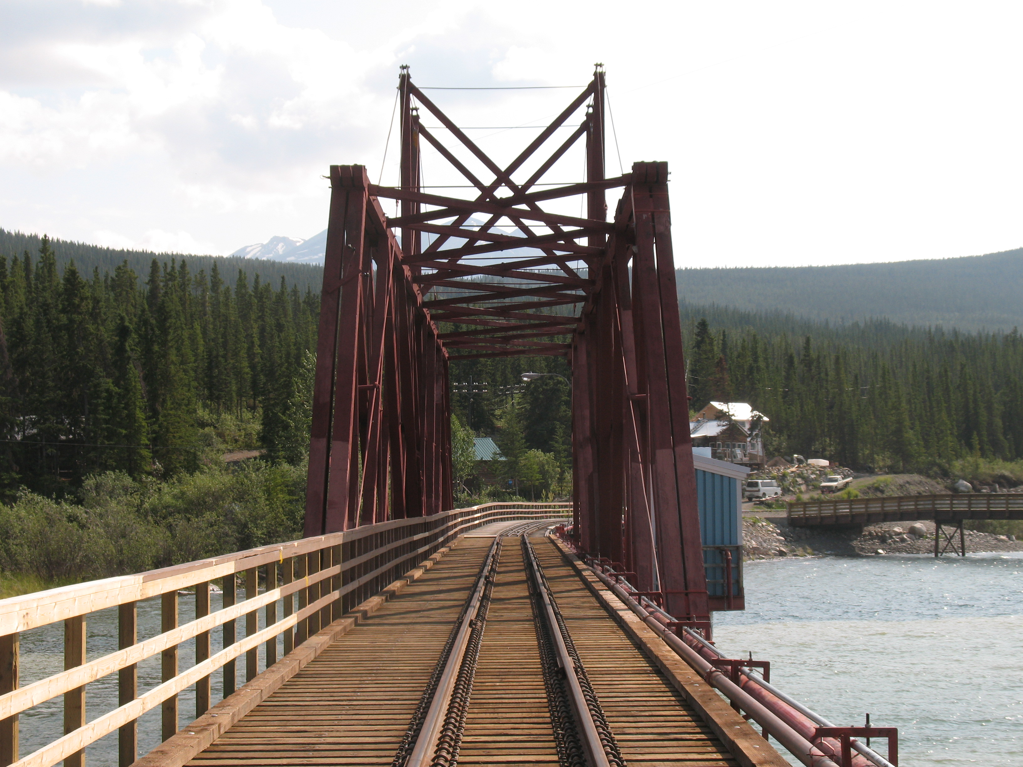 Railway Bridge in Carcross, Yukon